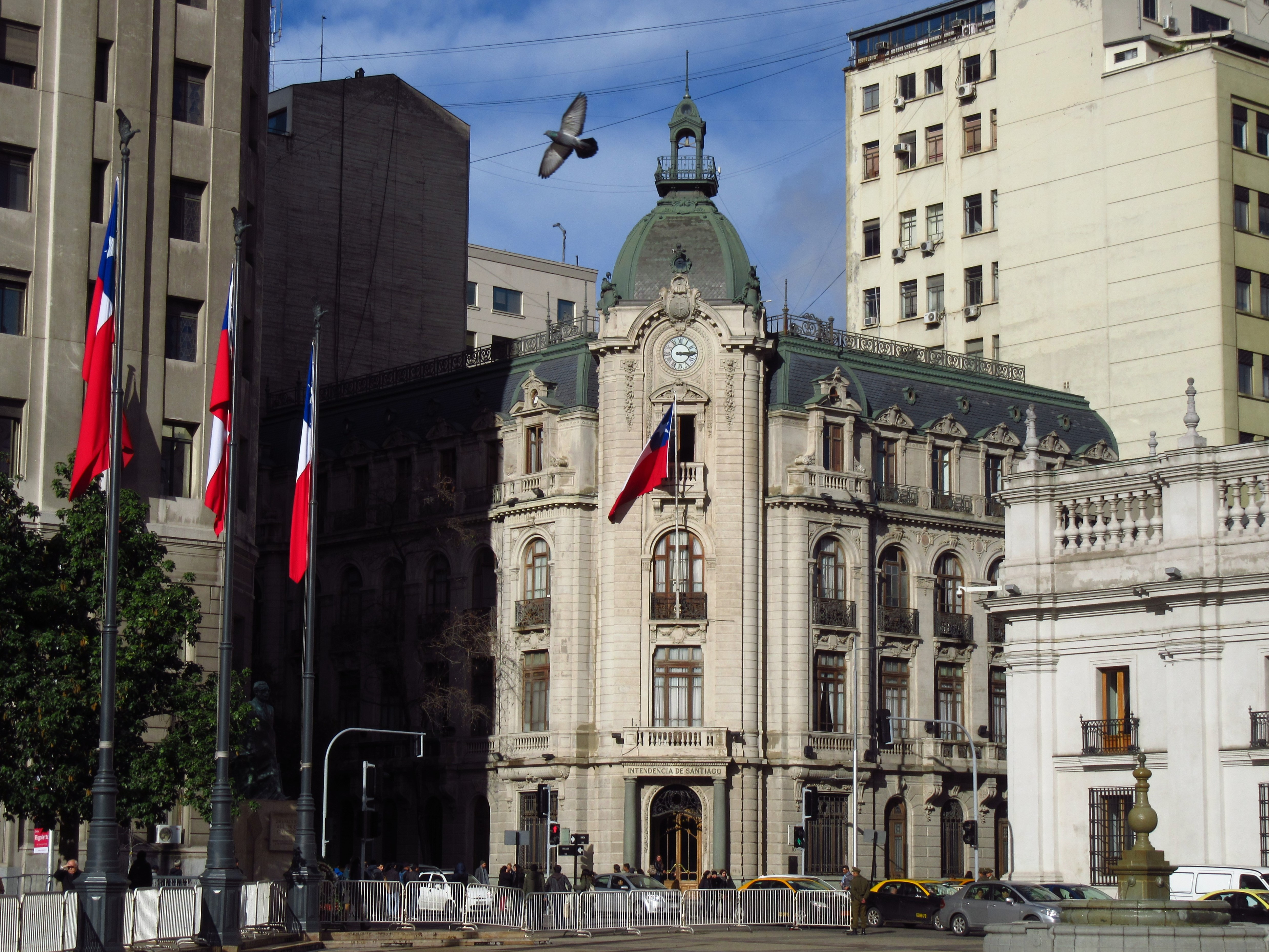 2017 in Santiago de Chile